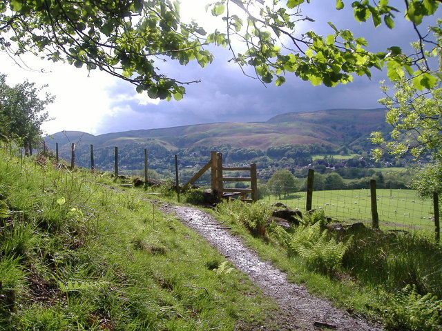 Stile on North side of Caer Caradoc. Church Stretton can be seen beyond. Once over this stile the fp leads to All Stretton, crossing the main road and the railway line.